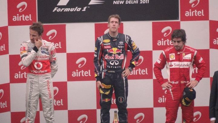 Podium winners of the 2011 Indian Grand Prix. From left to right: Jenson Button, Sebastian Vettel and Fernando Alonso.